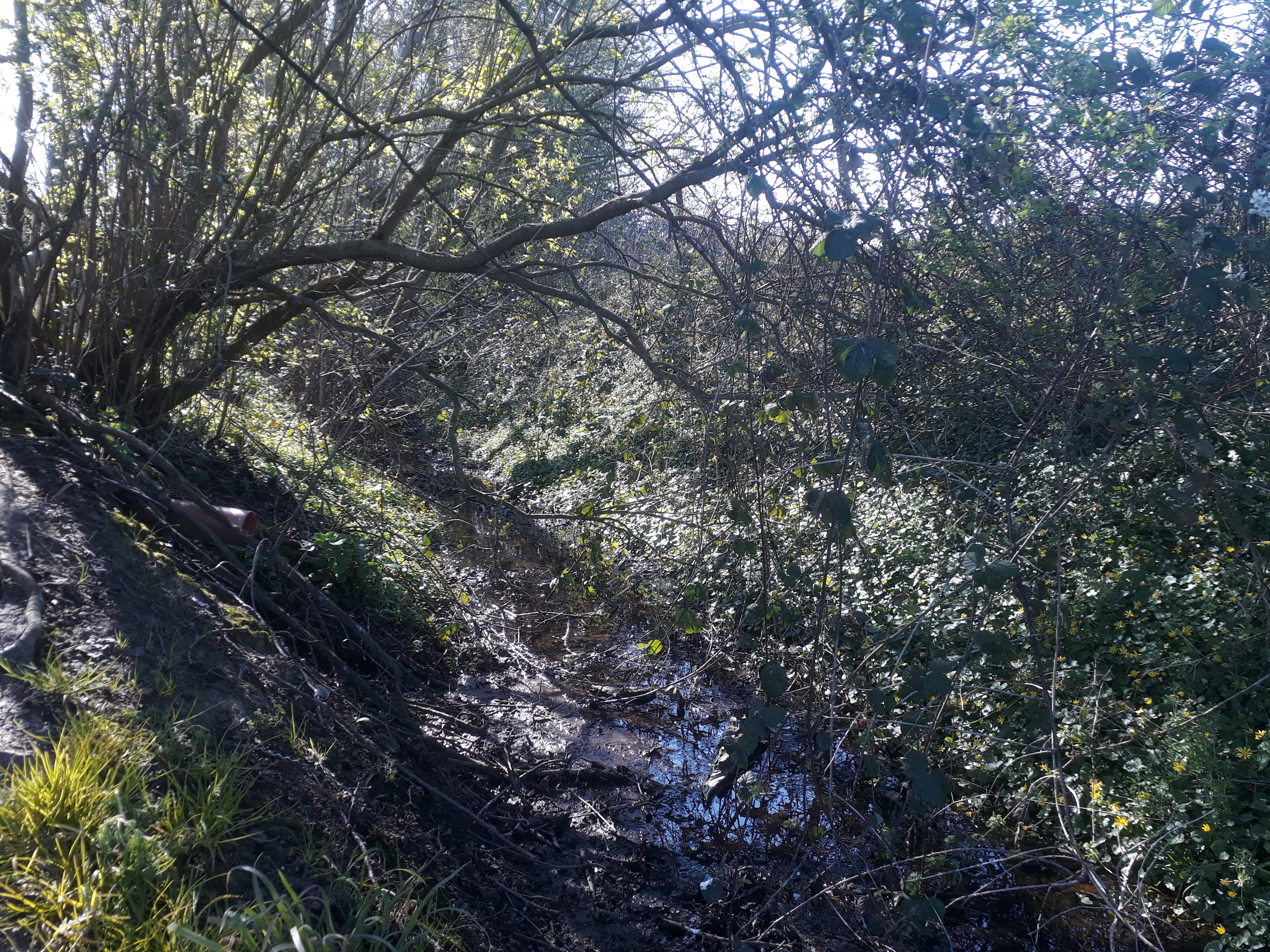 Rida11 Rida River in Vottem Belgium